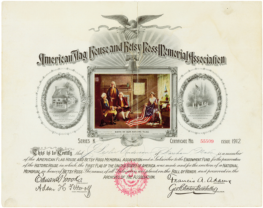 Certificate of the American Flag House and Betsy Ross Memorial Association, issued 1912; at left and right vignettes with the house in which the flag was produced and with the gravesite of Betsy Ross.